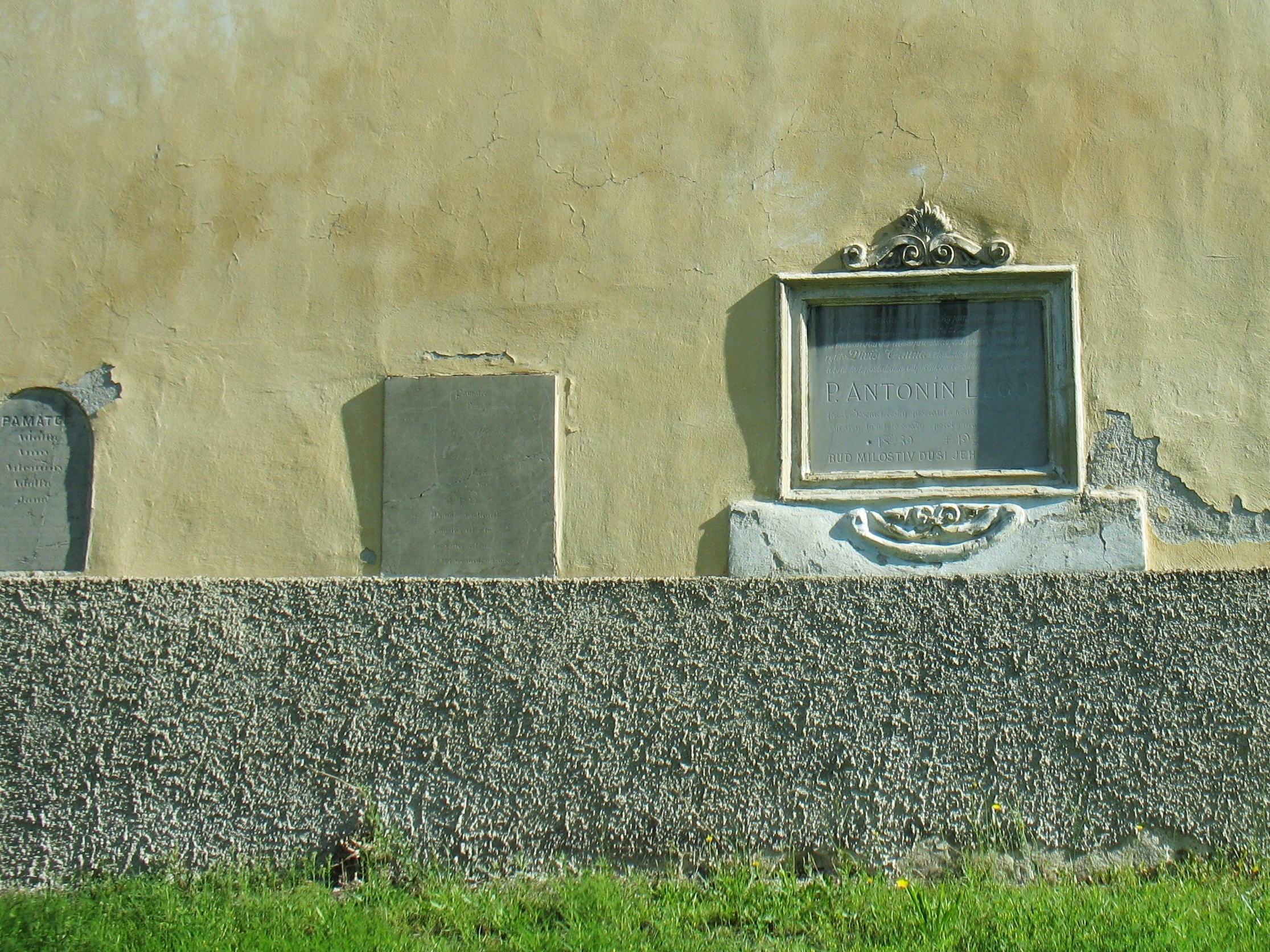 Church of the Holy Trinity in Jesenice, Příbram District, Central Bohemian Region